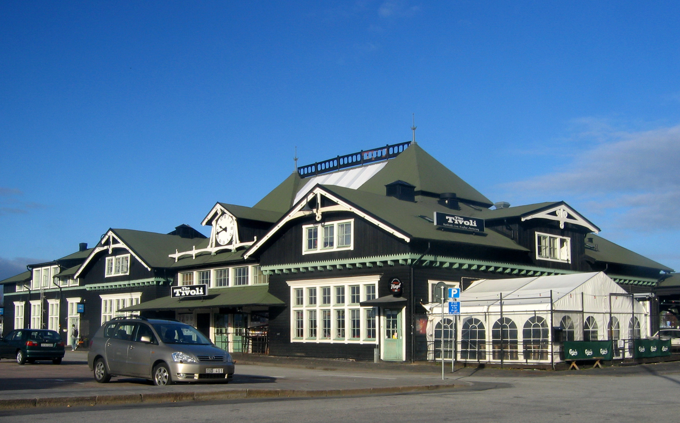 Restaurant Tivoli in Helsingborg, Sweden